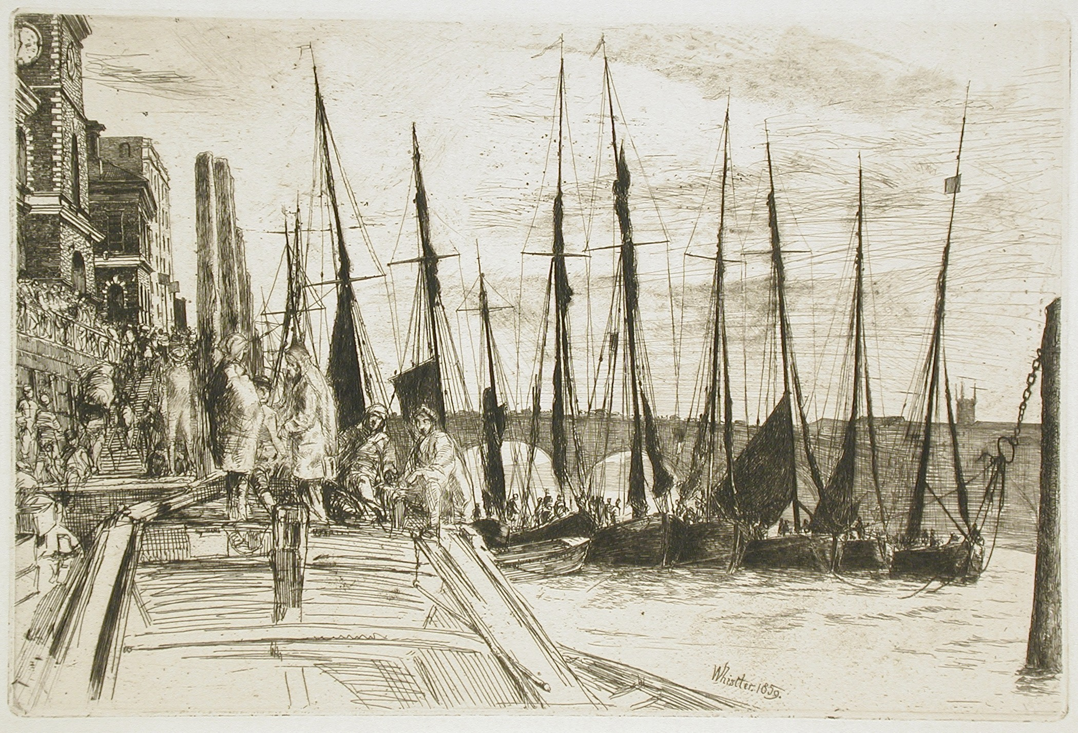 United States, 1859 Periodical: The Portfolio (January 1878) Prints; etchings Etching 5 7/8 x 8 7/8 in. (14.92 x 22.54 cm) The Julius L. and Anita Zelman Collection (M.84.279.12) Prints and Drawings